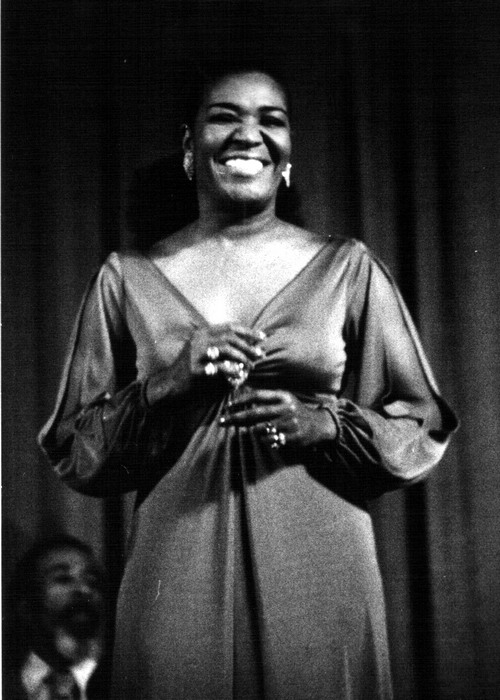 Jazz Singer Carrie Smith in France